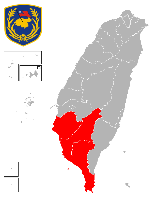 Republic of China (Taiwan) 8th Army Corps map